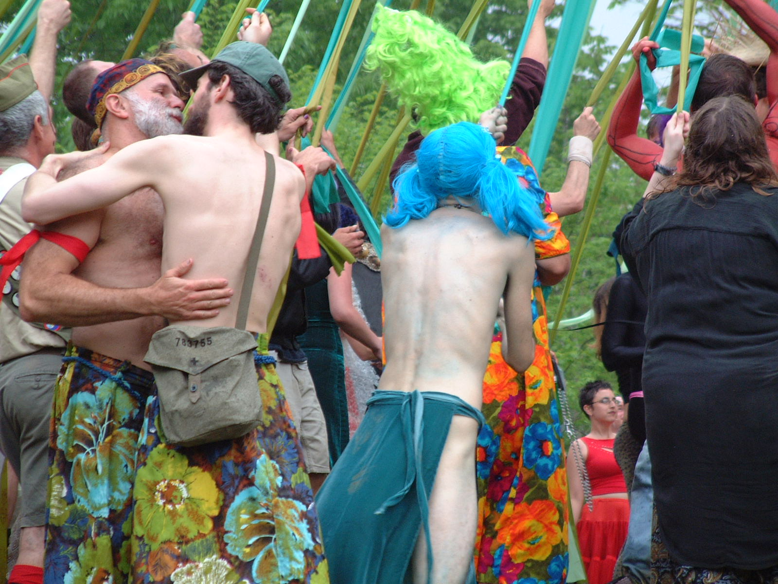 Radical faeries kissing